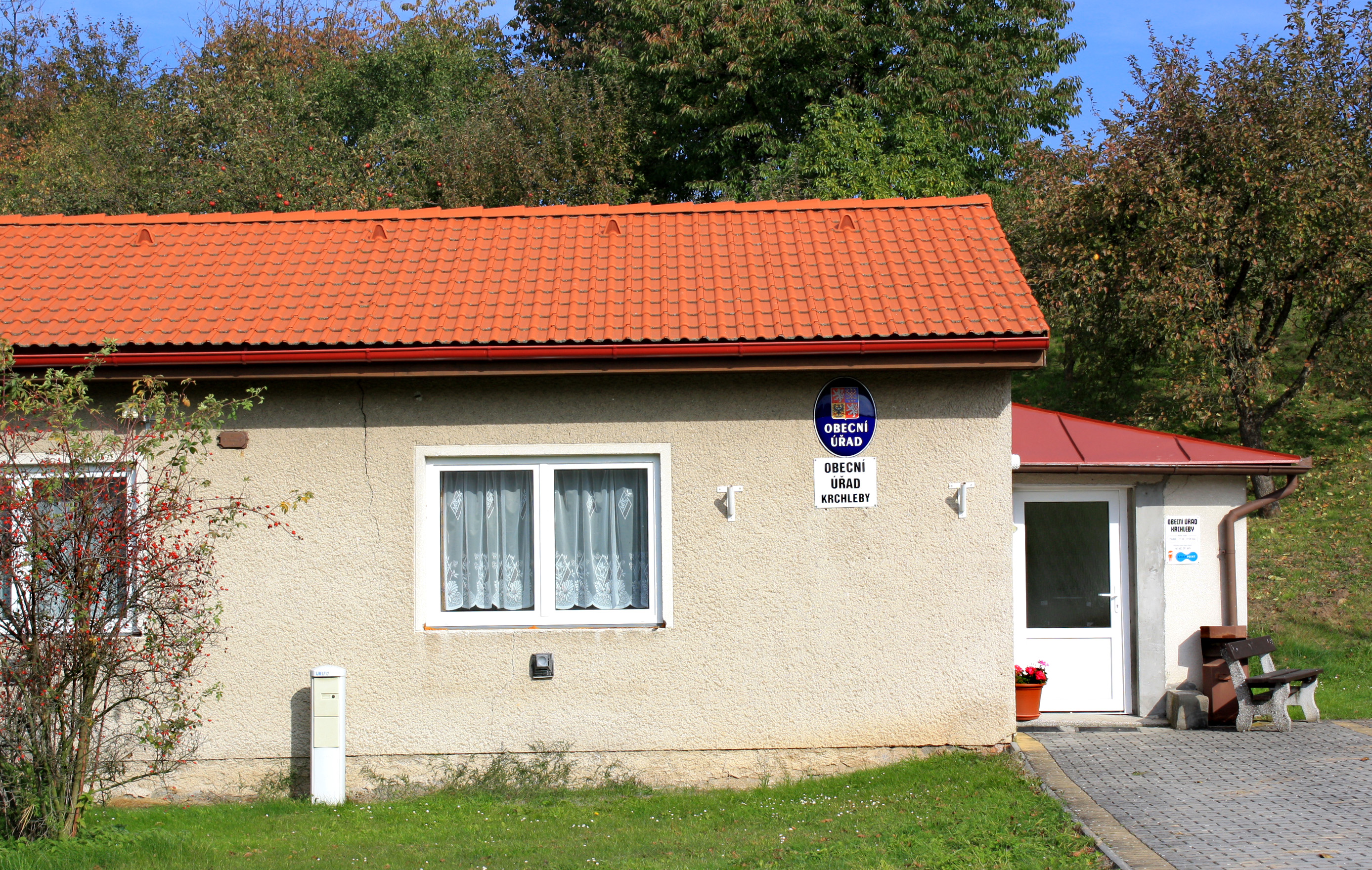 Small chapel in Rájec, part of Krchleby, Czech Republic